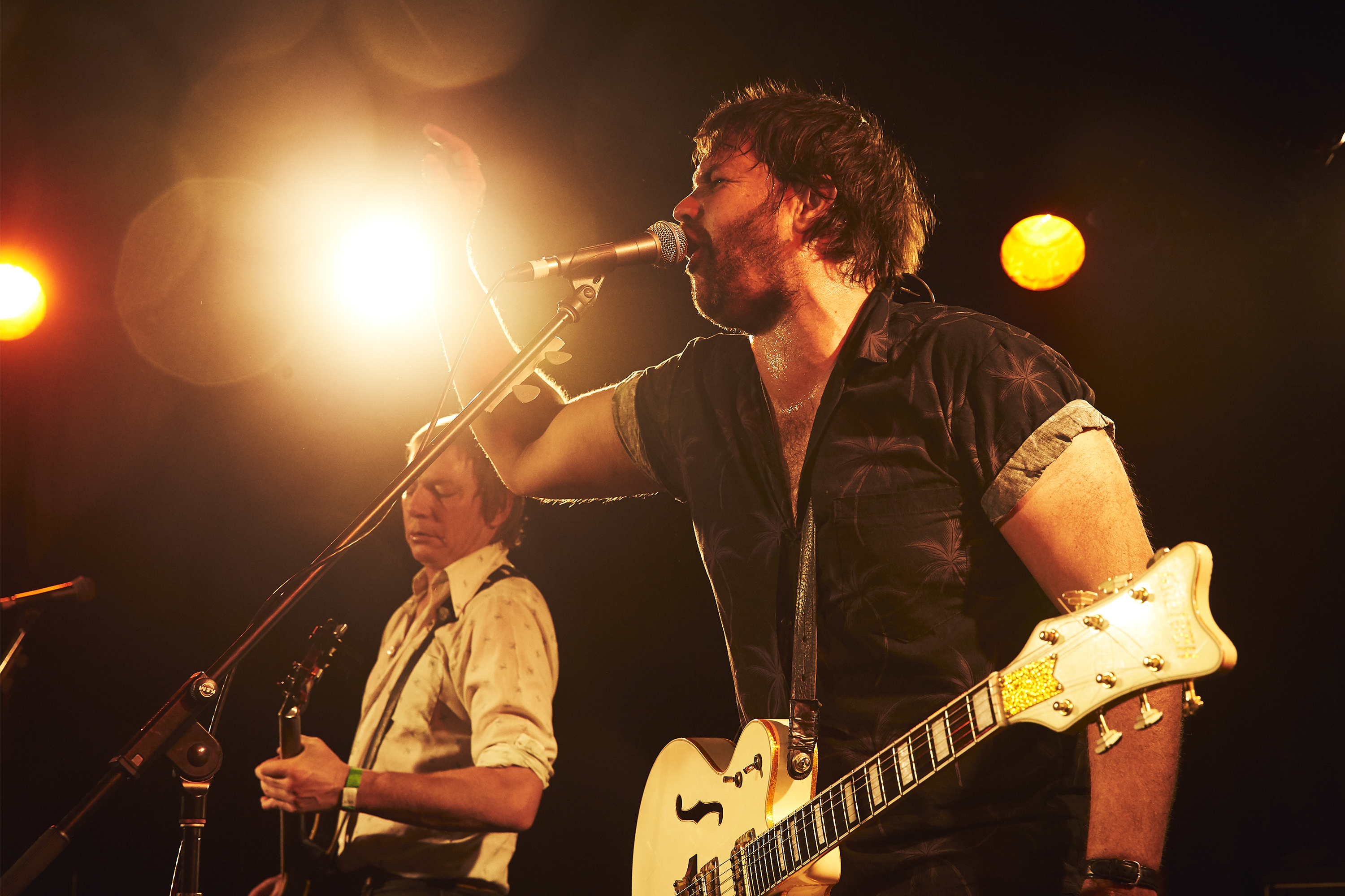 Dallas Crane